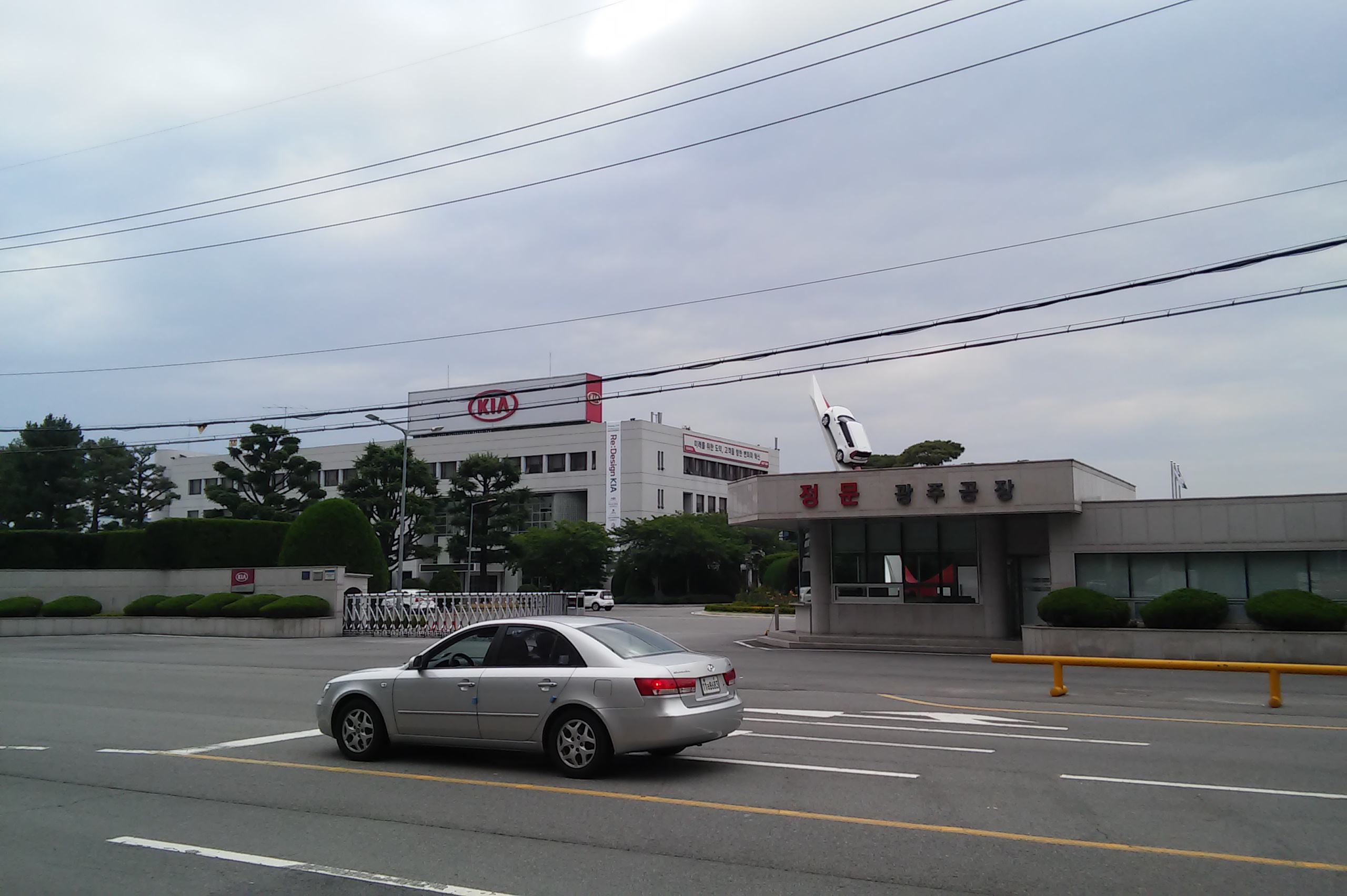 Kia Motors South Korea factory